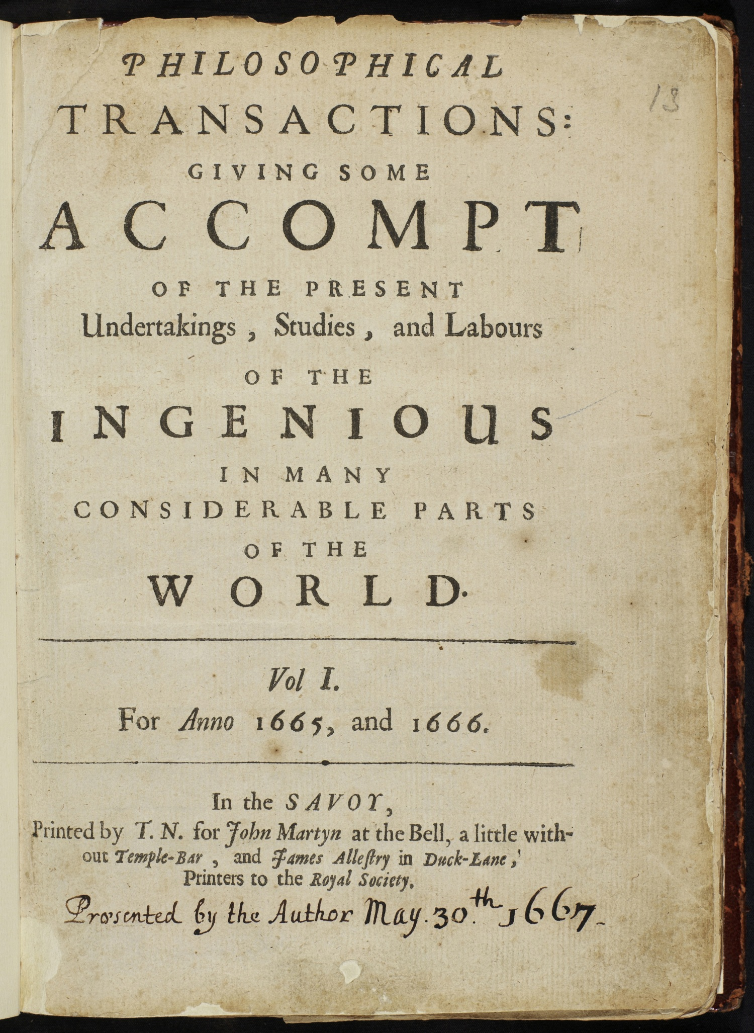 Frontispiece to volume 1 of Philosophical Transactions